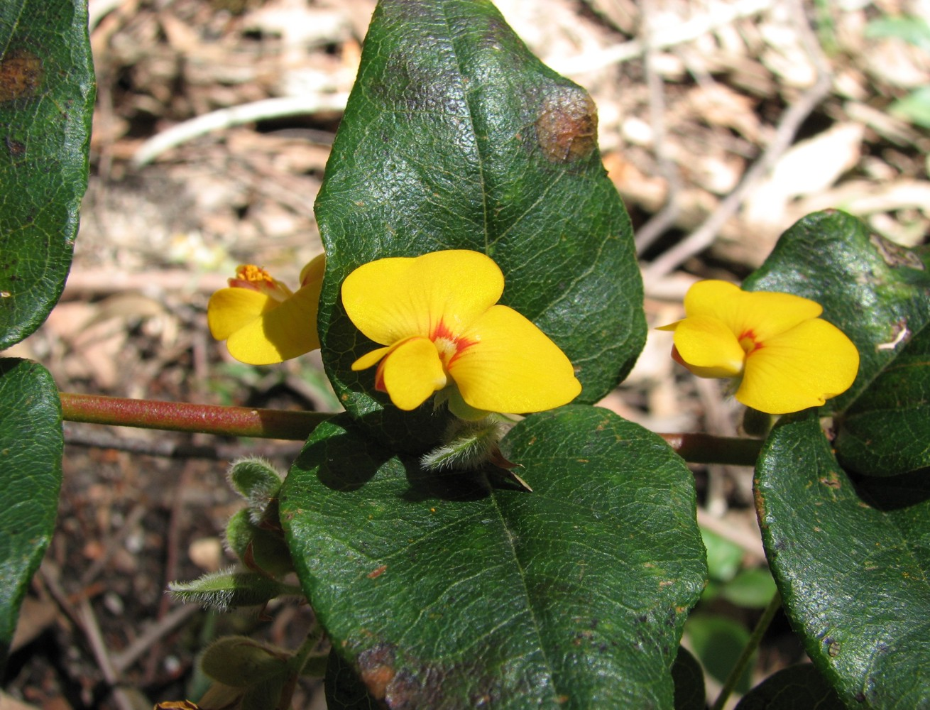 Platylobium sp., Bunyip State Park, Victoria, Australia